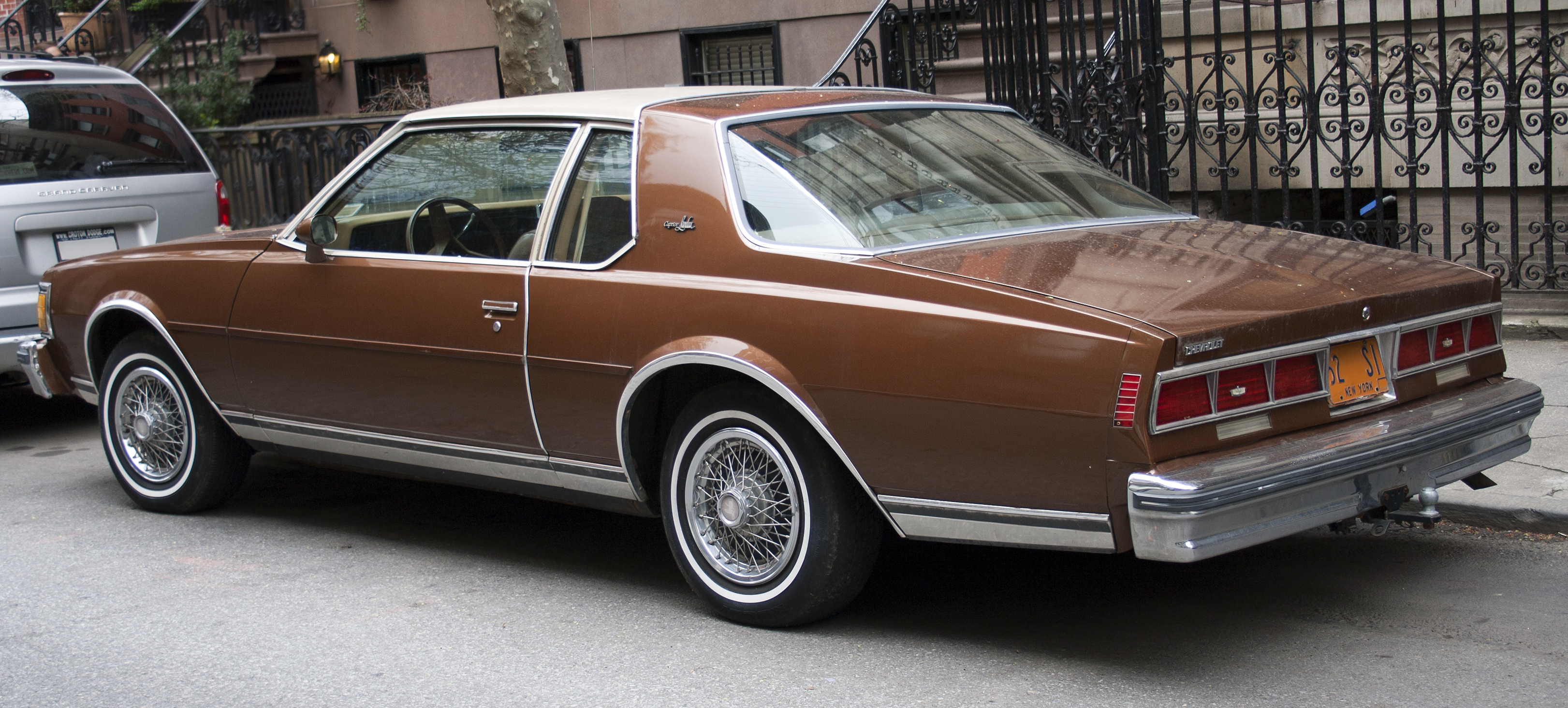 1979 Chevrolet Caprice Landau Coupé